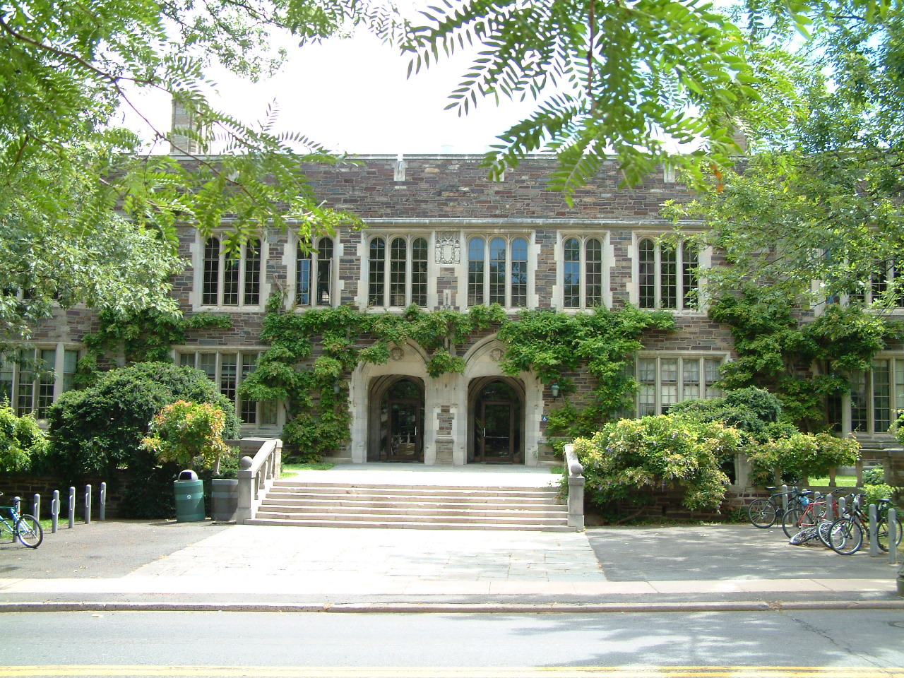 Princeton University Frick Lab